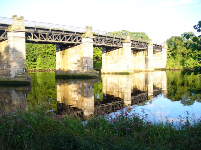 River Dee Railway Bridge Box girders on the stone piers carry the Aberdeen - Stonehaven railway line over the tidal section of the River Dee beside the Duthie Park.